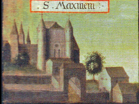 St. Maximin's Abbey in 1589